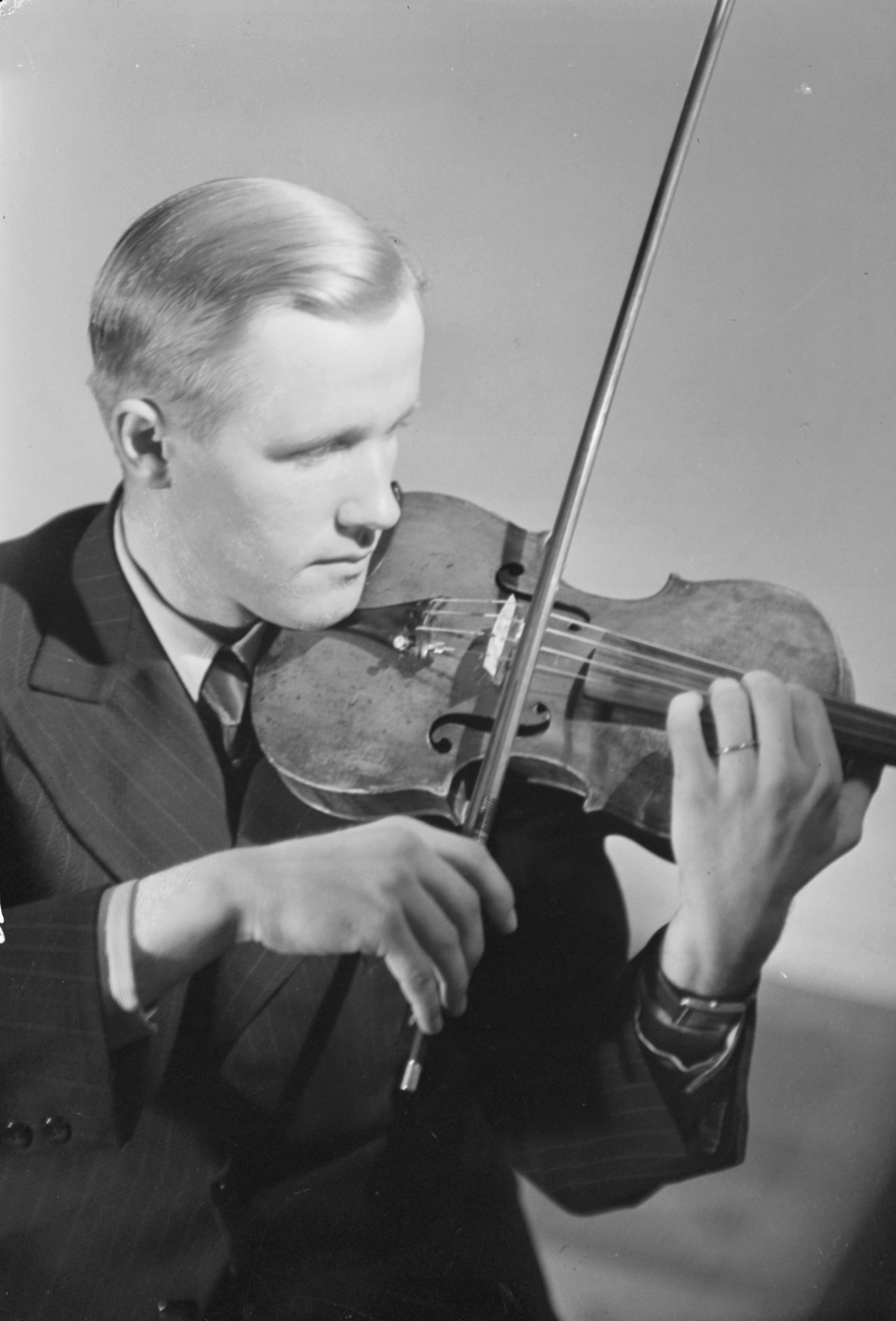 Photograph of the Finnish violinist and educator Jouko Ignatius (1920–2001).